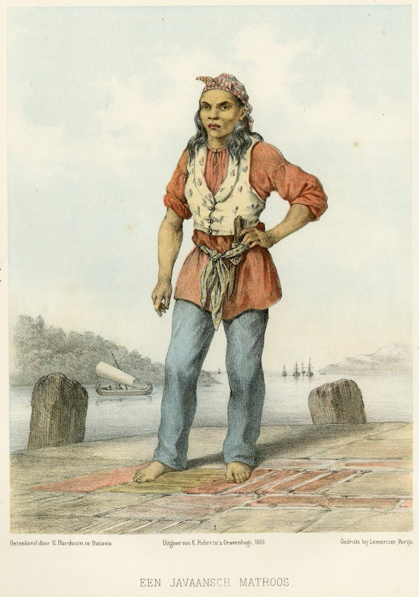 Een Javaansch Matroos (A Javanese sailor) Lithograph with original delicate hand colouring and shellac finish on wove (vellin) paper. Made by E. Hardouin after own design. Ernest Alfred Hardouin (French; born 1820) did not live to see the work published – he died in Batavia in 1853 (or January 1854, as stated by Haks and Maris). Author of the book: Wilhelm Leonard Ritter (1799-1862) travelled widely across the Malayan Archipelago and is regarded as one of the most prolific 19th-century writers on the Dutch East Indies.